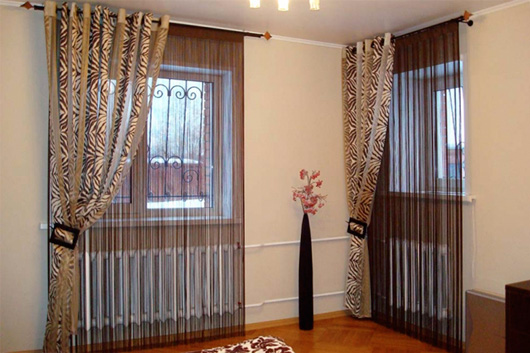 House interior, windows, window rods with spike finials, curtains.